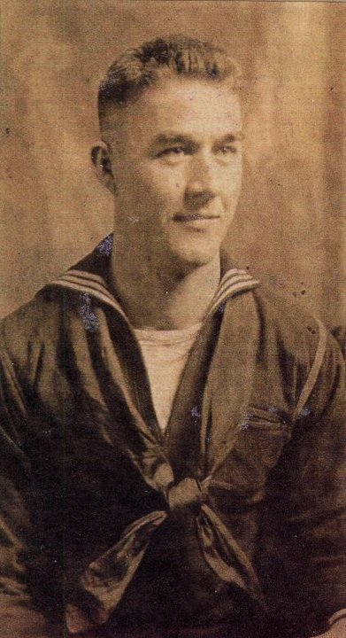 Victor Mills, later a chemical engineer and major figure at Proctor & Gamble, during his enlistment in the U.S. Navy during World War I.